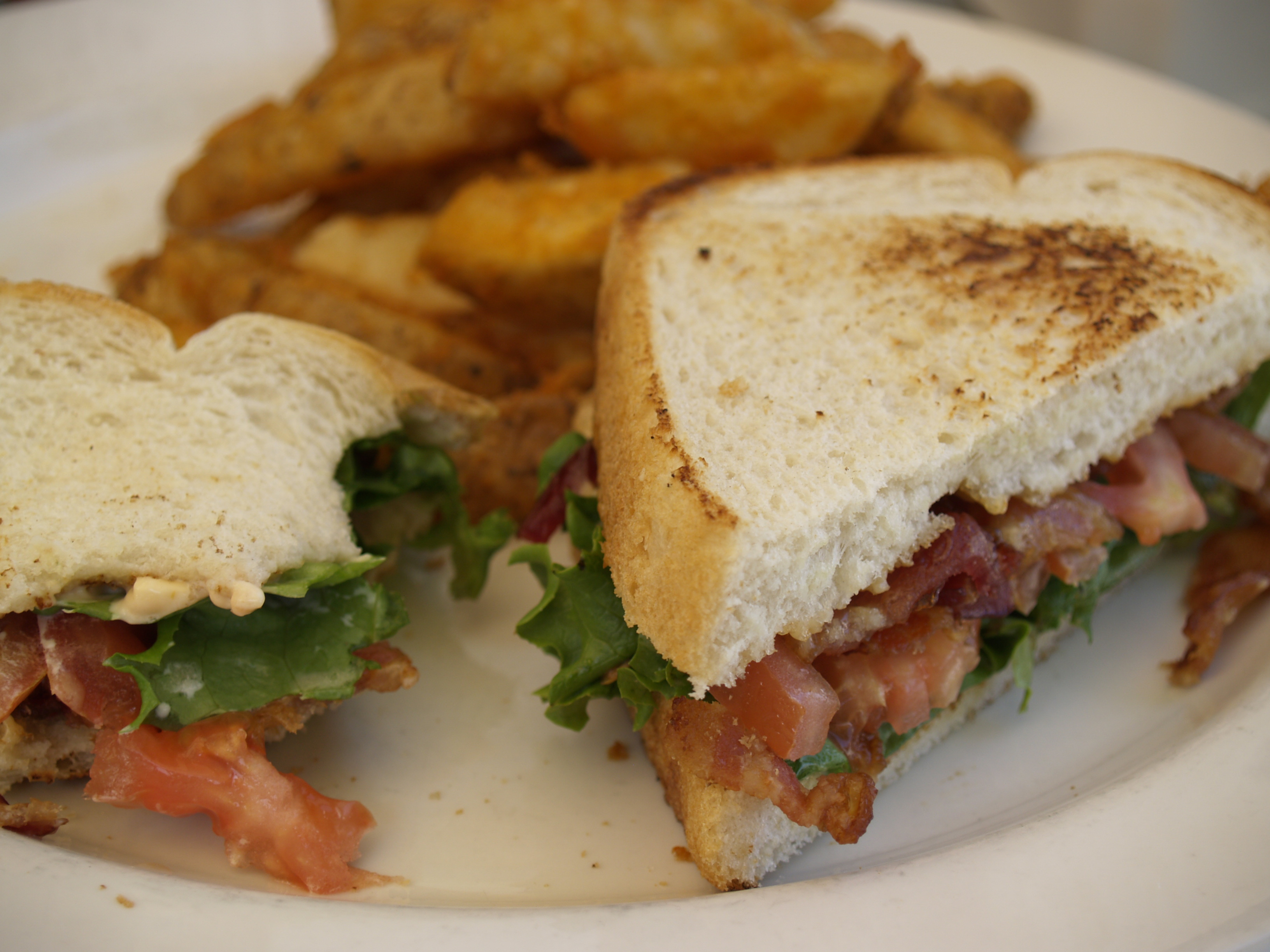 BLT-sandwich (Bacon, Lettuce, Tomato) med pommes frites